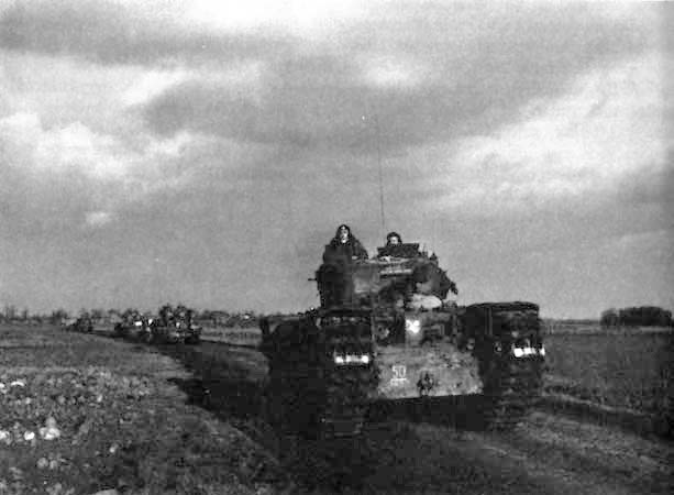 Churchill tanks near Geilenkirchen.